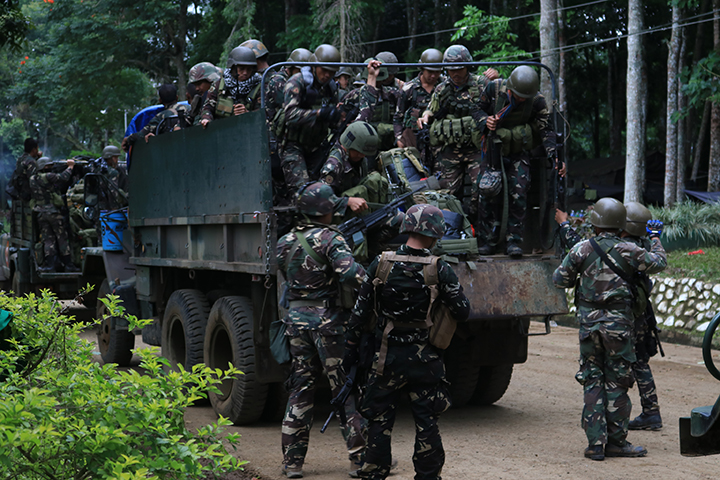 Filipino soldiers involved in the Marawi crisis.